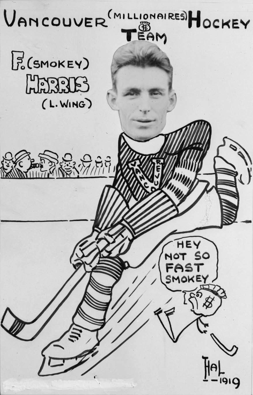 Carciature of Fred "Smokey" Harris, 1919